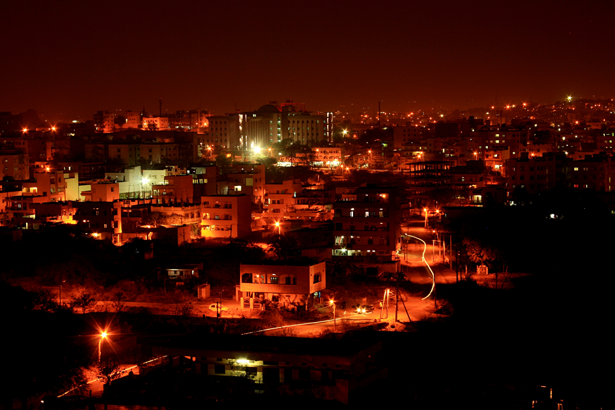 Night shot of Gajularamaram Village with Usha Mullapudi Cardiac Center visible in skyline, Hyderabad - AP - India.